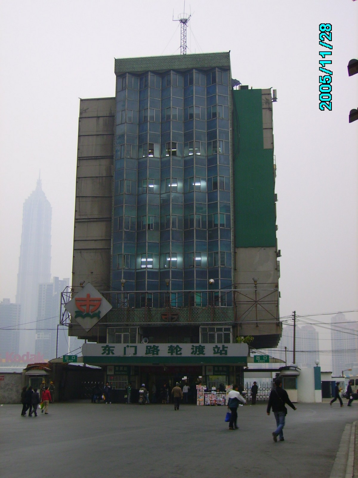 Dongmen Rd Ferry